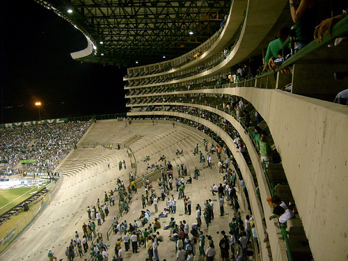 Estadio Deportivo Cali in Palmira, Colombia